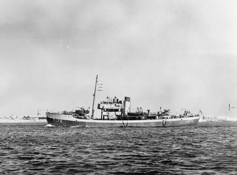 Photograph of British armed trawler HMT Islay.